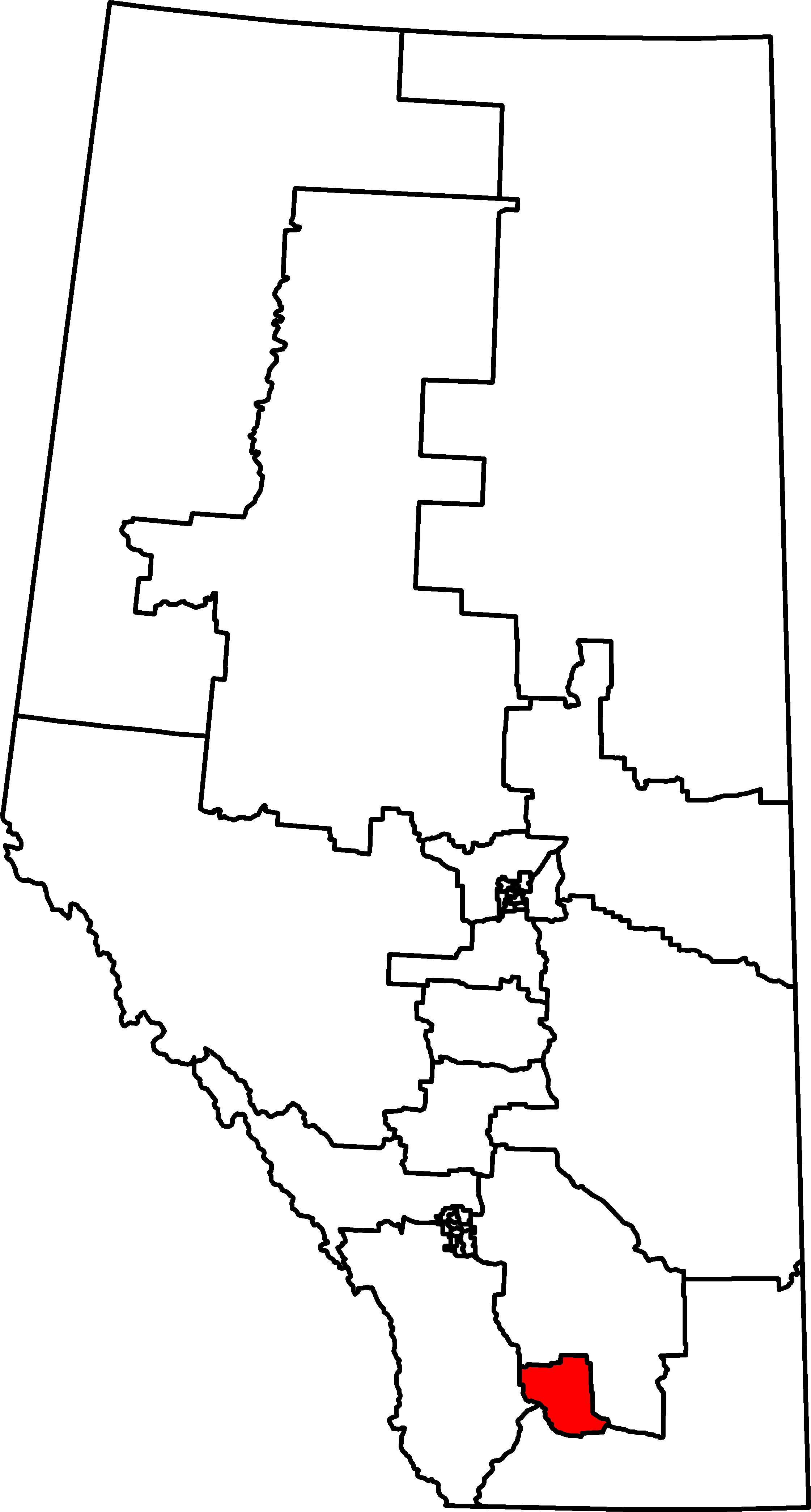 Federal Electoral District in Alberta, Canada as of the 2013 Representation Order.